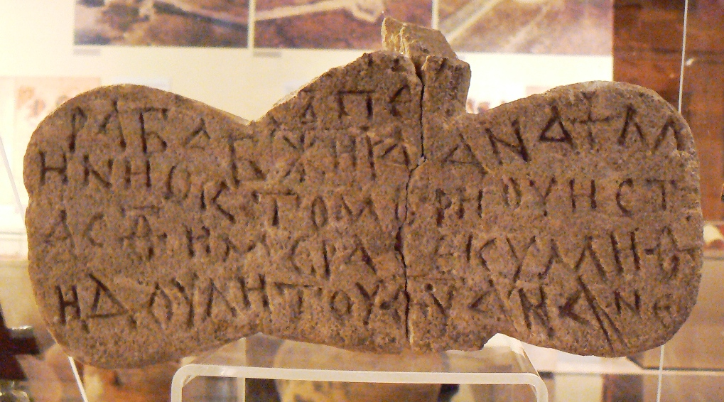 Tombstone cross of Anna, daughter of Knyaz Boris, 10 century AD. Bilingual inscription in Old Bulgarian and Mid Greek. Exhibit of the National History Museum of Bulgaria (replica, original is in the Archaeological museum in Veliki Preslav)